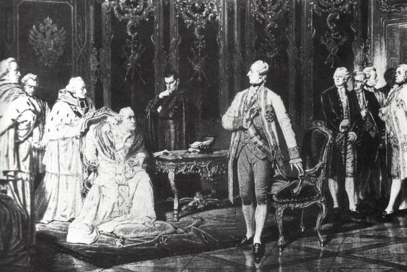 II Joseph and VI Pius